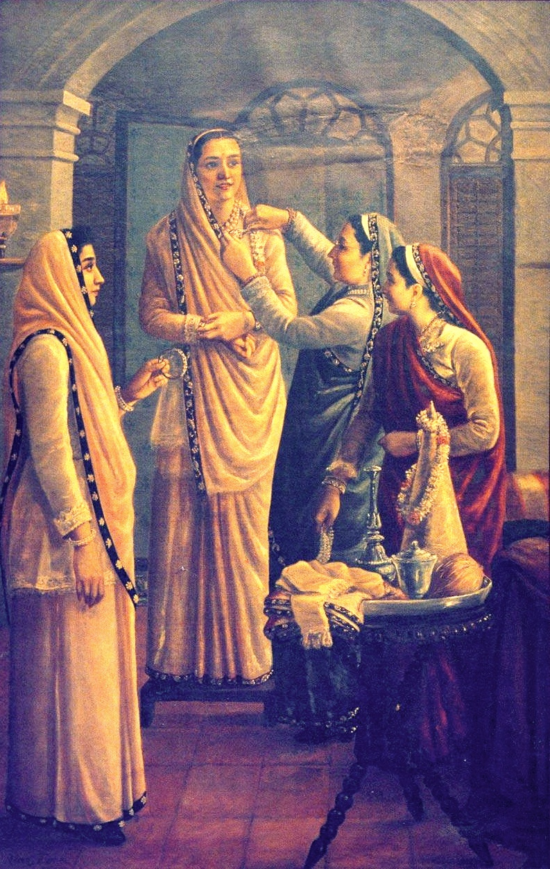 Decorating a bride, probably a Maharashtrian family.